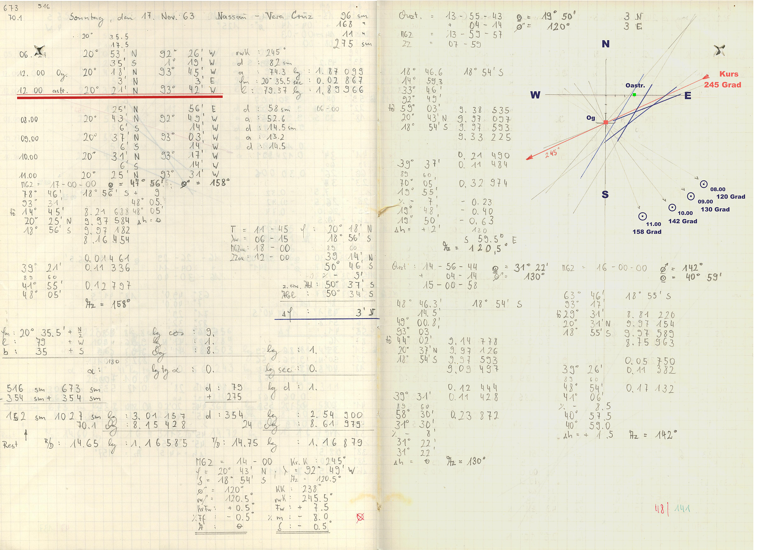 Calculation of the ship's location at 12.00 clock. - Observation of the sun 4 times and accumulation of the sun.